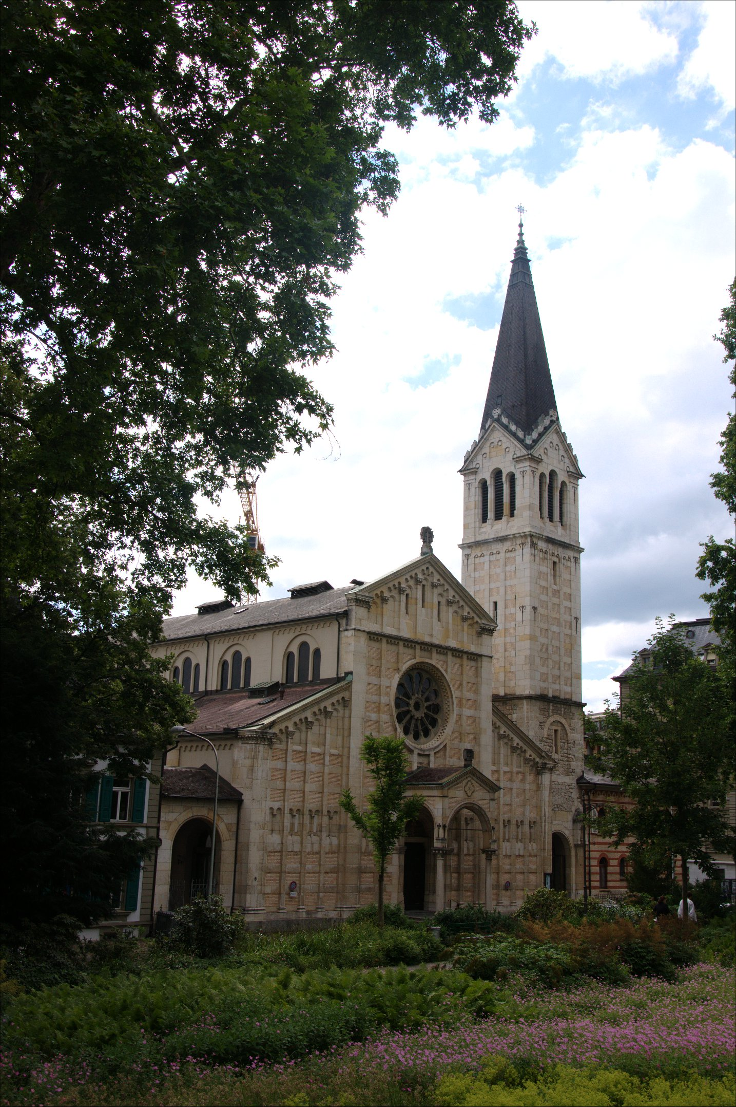 Dreifaltigkeitskirche (Trinity Church) in Berne